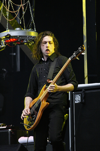 Queen of the Stone Age - Michael Shuman